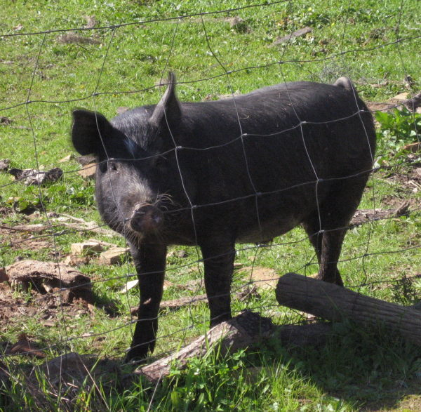 Young black pig being raised naturally in a farm near Montemor-O-Novo, Portugal